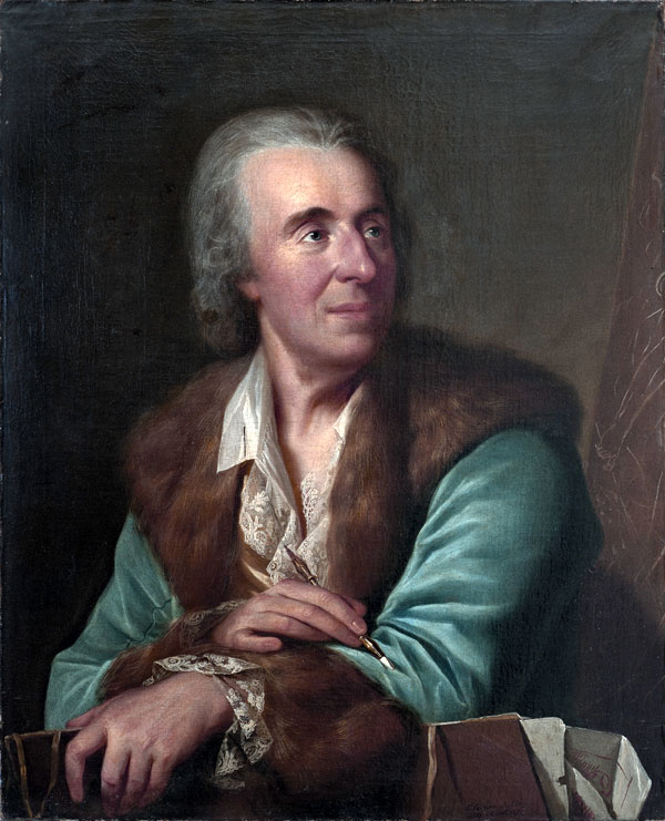 Depicted person: Lambert Krahe